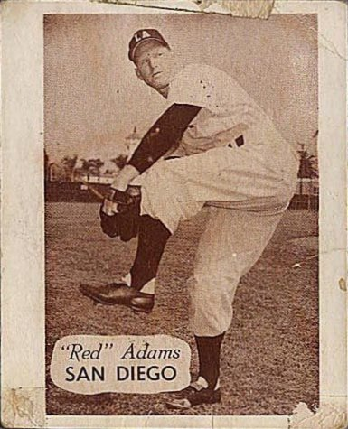 Major League baseball pitcher Red Adams with the minor league San Diego Padres in 1949.